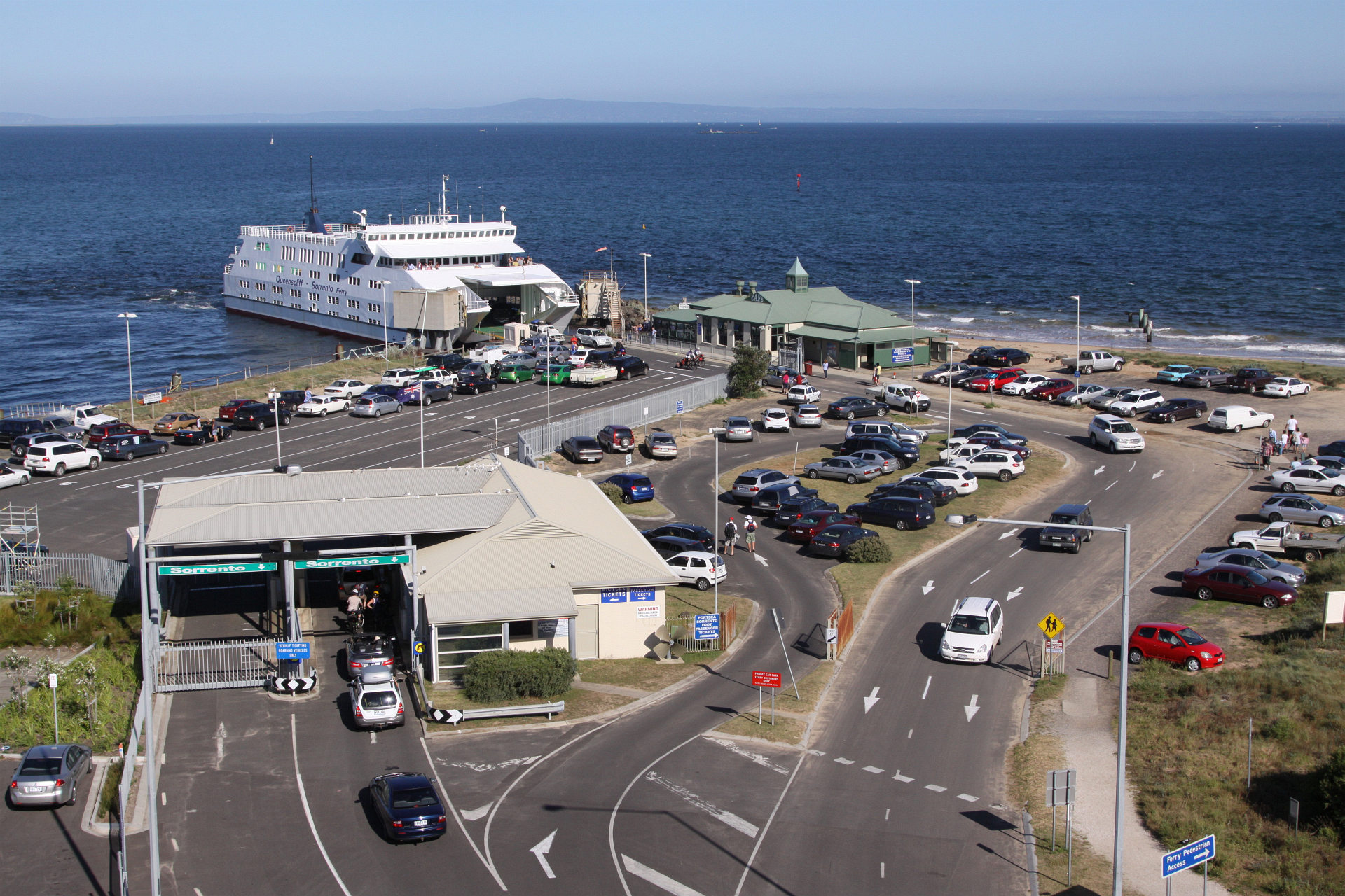 Roll-on/roll-off ferry terminal at Queenscliff, Victoria. Opened in 1993, operated by Peninsula Searoad Transport. MV Queenscliff (1992) is berthed and unloading cars, queue of cars waiting to be loaded.